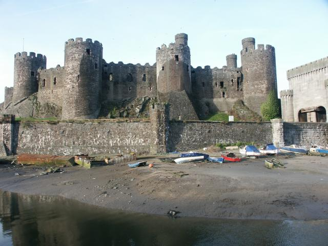 Conwy Castle. Built between 1283 and 1290 for Edward I. The stone used for the main part in the construction of the Castle and Walls is the hard grey Silurian grit of which the Castle rock itself is formed.